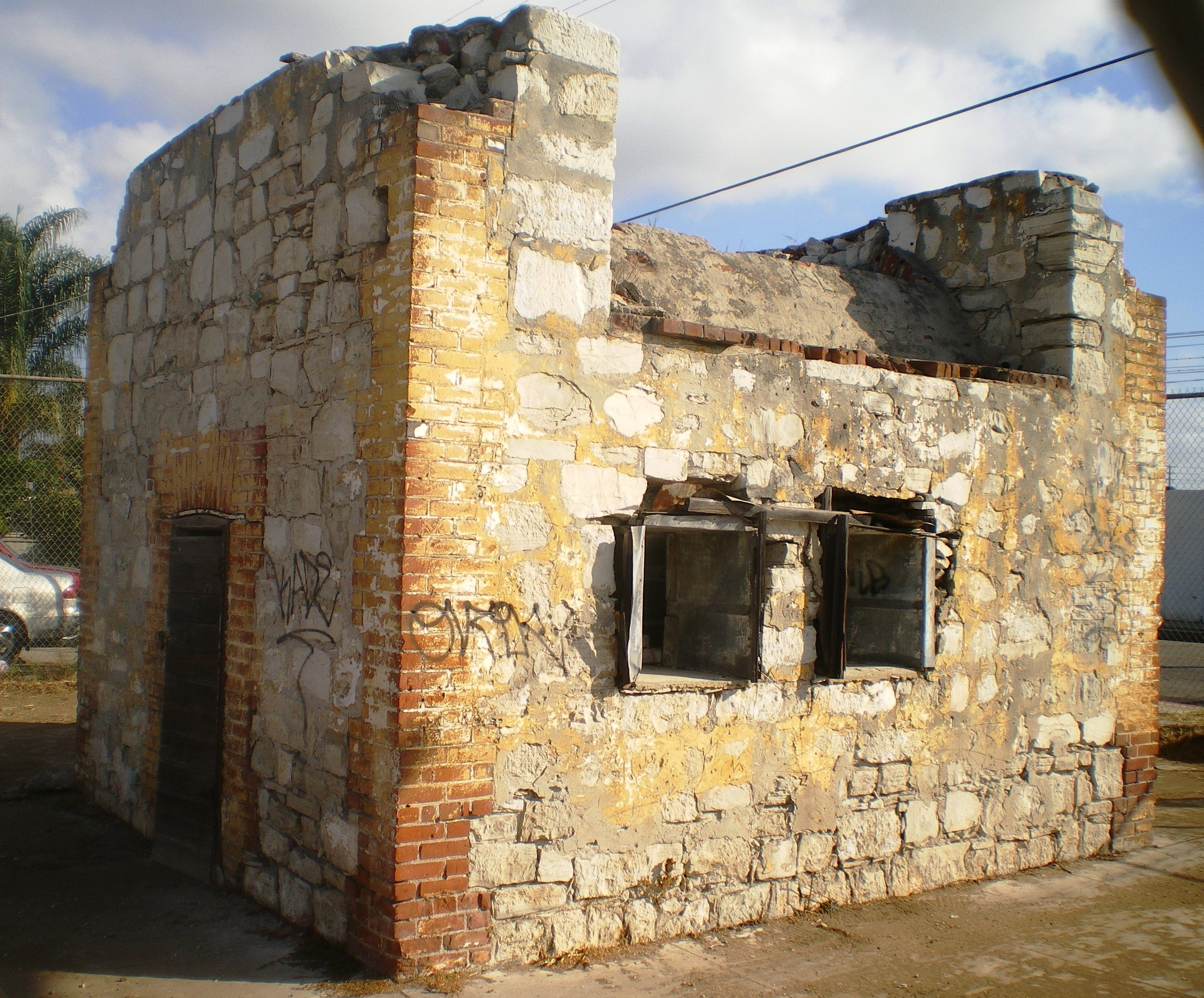 The Powder Magazine at Camp Drum — at 561 E. Opp St., Wilmington, Los Angeles Harbor area, California. The 1860s powder magazine building is a Los Angeles Historic-Cultural Monument. The nearby Drum Barracks Civil War Museum is the only other remaining structure of Civil War era Camp Drum.